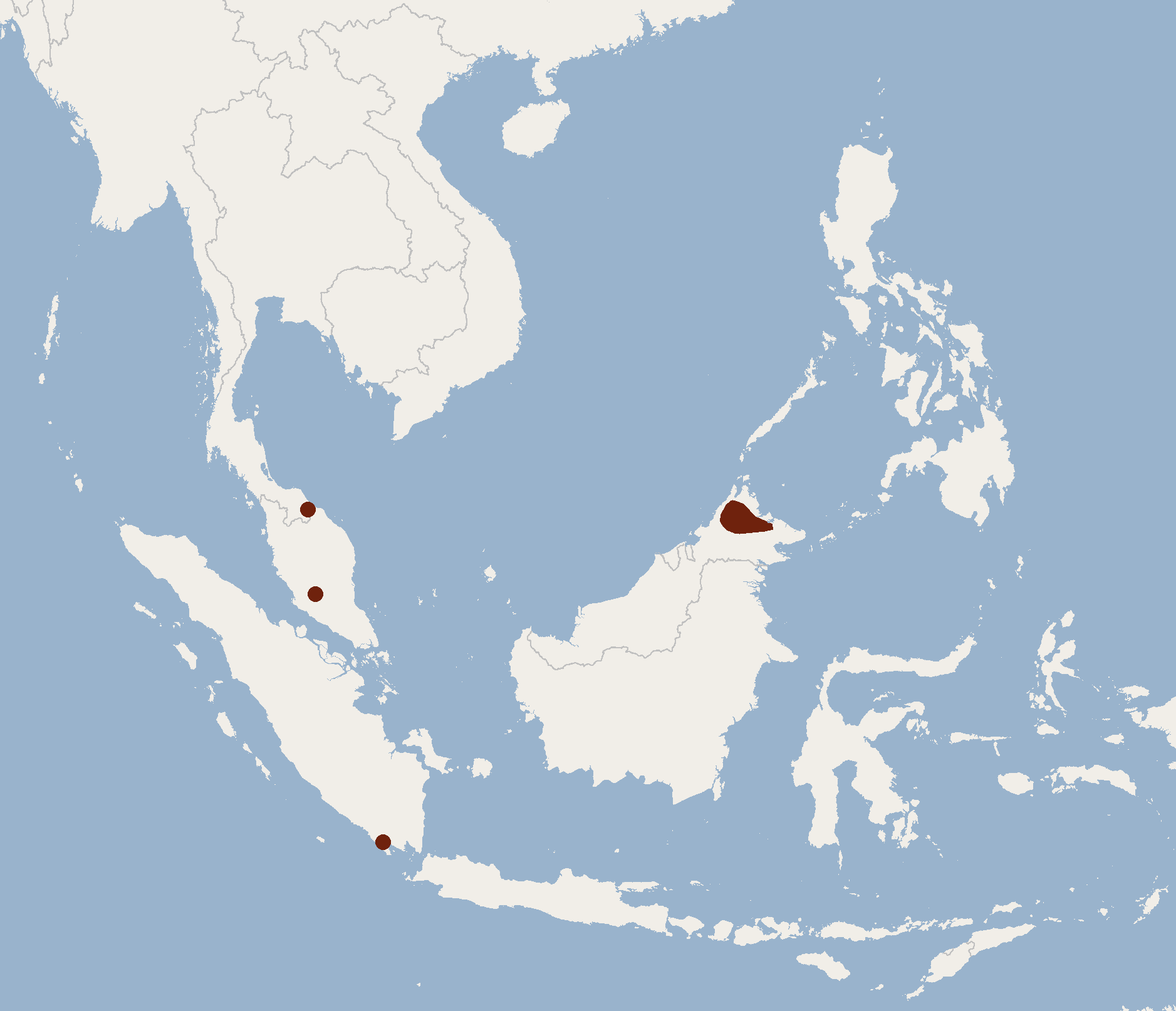 Geographical distribution of Murina rozendaali according to Francis, 2008